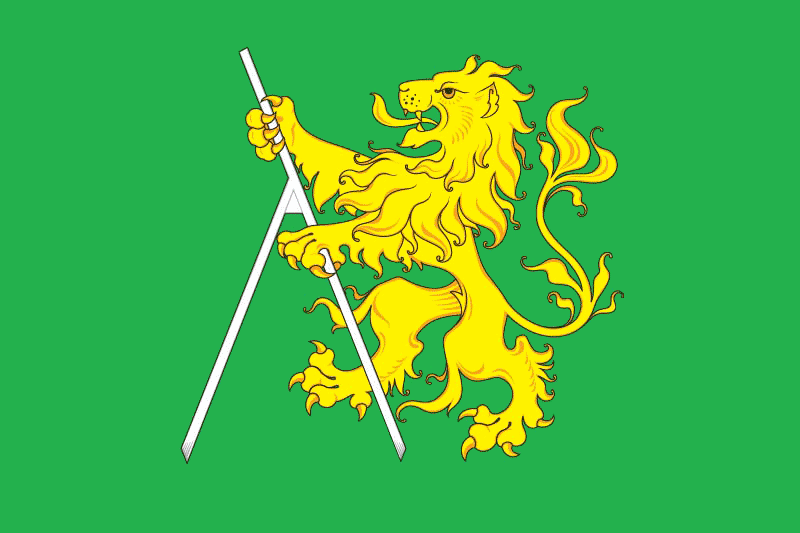 Flag of Lvovskoe rural settlement, Krasnodar Territory, Russia